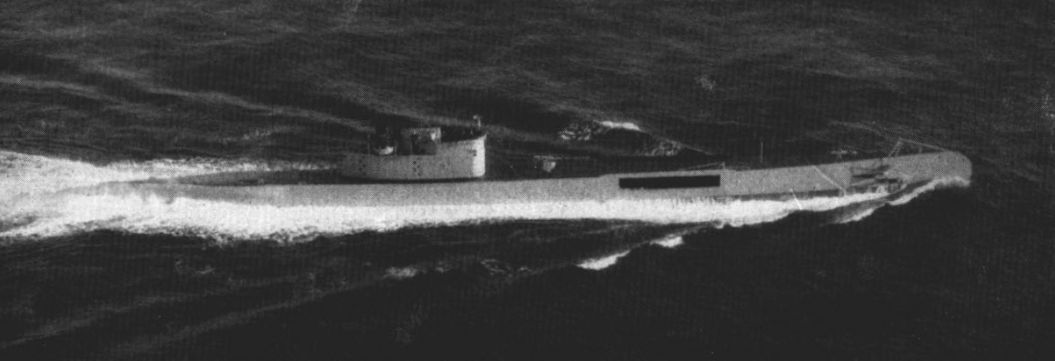 The Koninklijke Marine (Royal Netherlands Navy) submarine O 24 underway. O 24 was commissioned in 1940 and became a training ship in 1947. She was decommissioned on 1955 and scrapped in 1963.